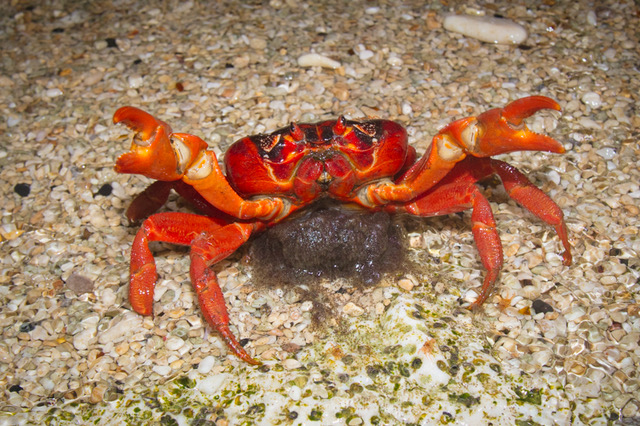 Female Christmas Island Red crab about to release eggs into the sea.